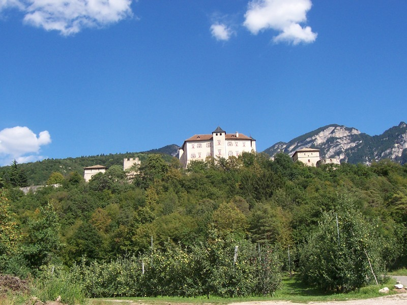 Ton - Castel Thun